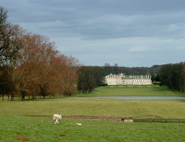 Boughton House, Northamptonshire home to the Duke of Buccleuch who owns some of the largest private landholdings in Britain. The grounds and surrounding area form working farms and has The Living Landscape Trust, an educational charity which welcomes visits from schools to see a balance of commercial and species conservation. Web site